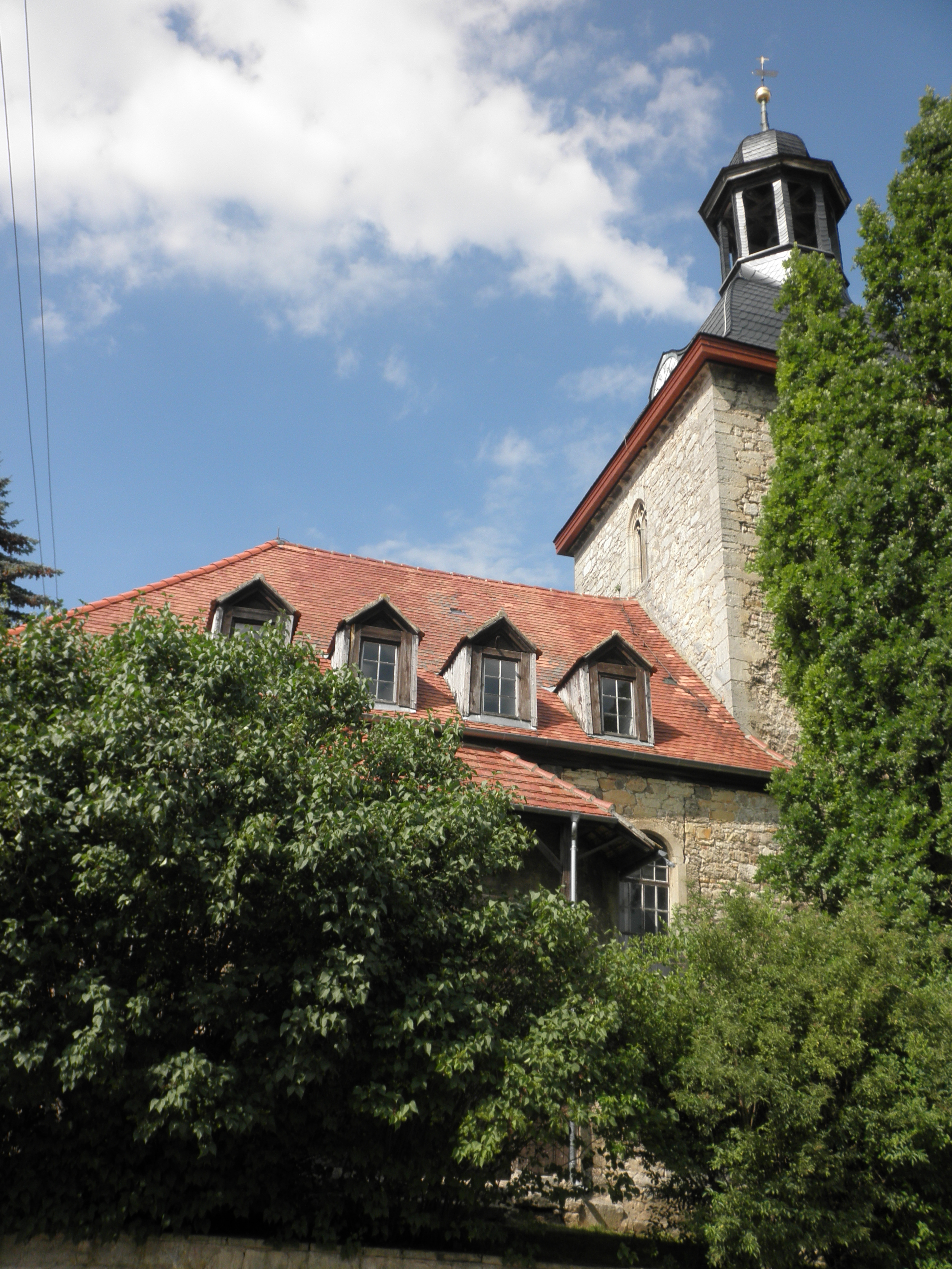 Church in Nerkewitz (Lehesten) in Thuringia